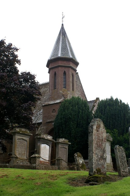 Ruthven Church